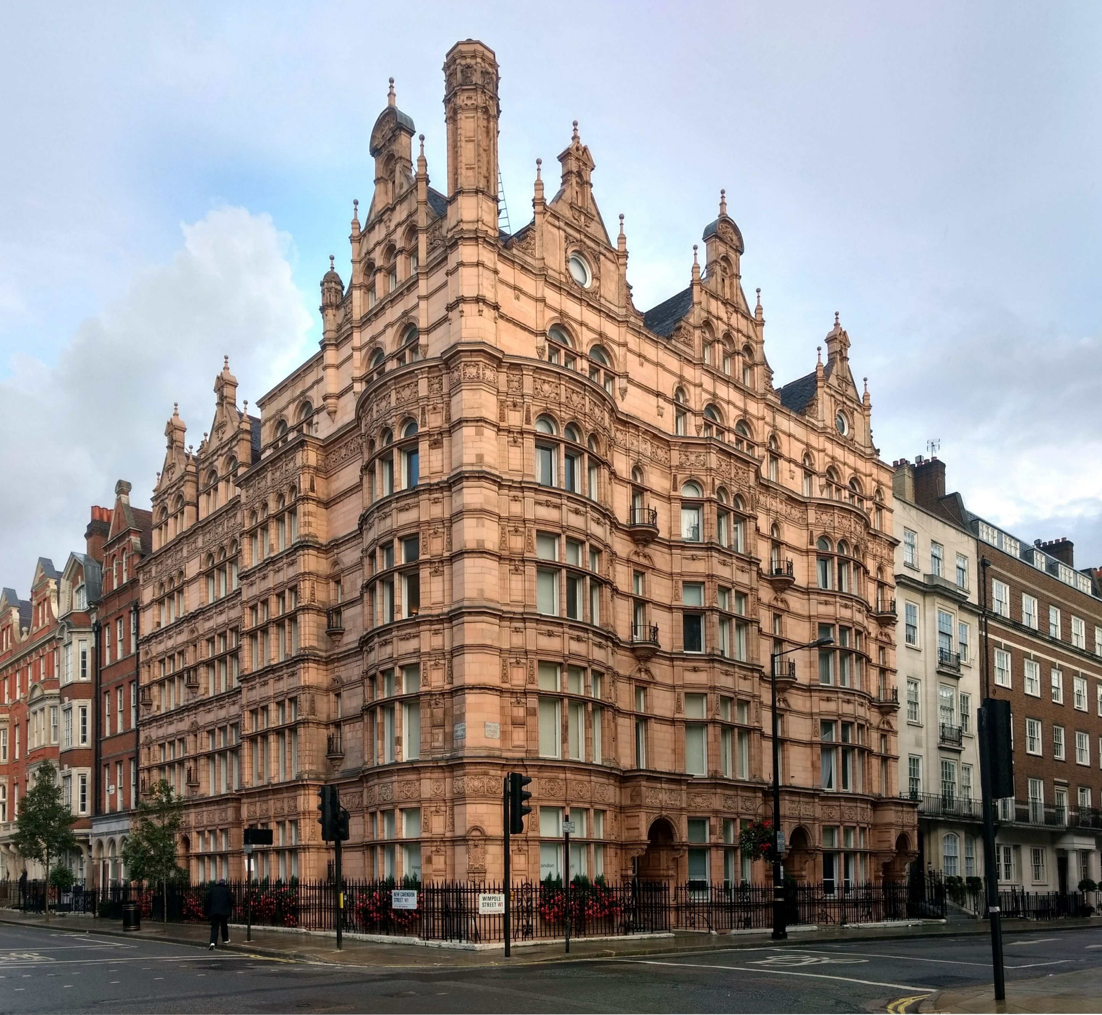 London